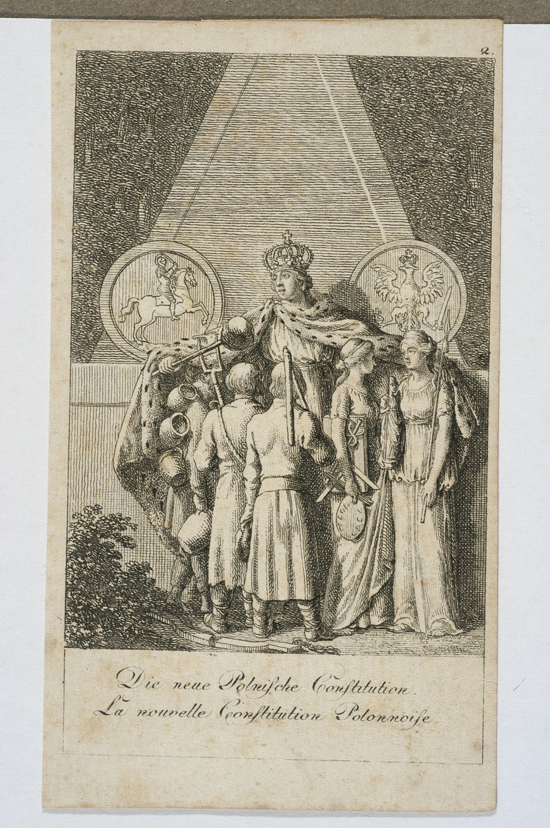 1792 Allegory of the Polish Constitution of 3 May 1791 by Daniel Chodowicki, an artist from Gdansk working in Berlin.The constitution is personified as a young queen. She is surrounded by two peasants, an artisan, female personifications of science, trade and arts, and victory. This allegory stresses the progressive aspect of the Constitution, enfranchising non-noble classes. Also, note the Polish and Lithuanian coats of arms. Etching, size: 8.8x5.2 cm